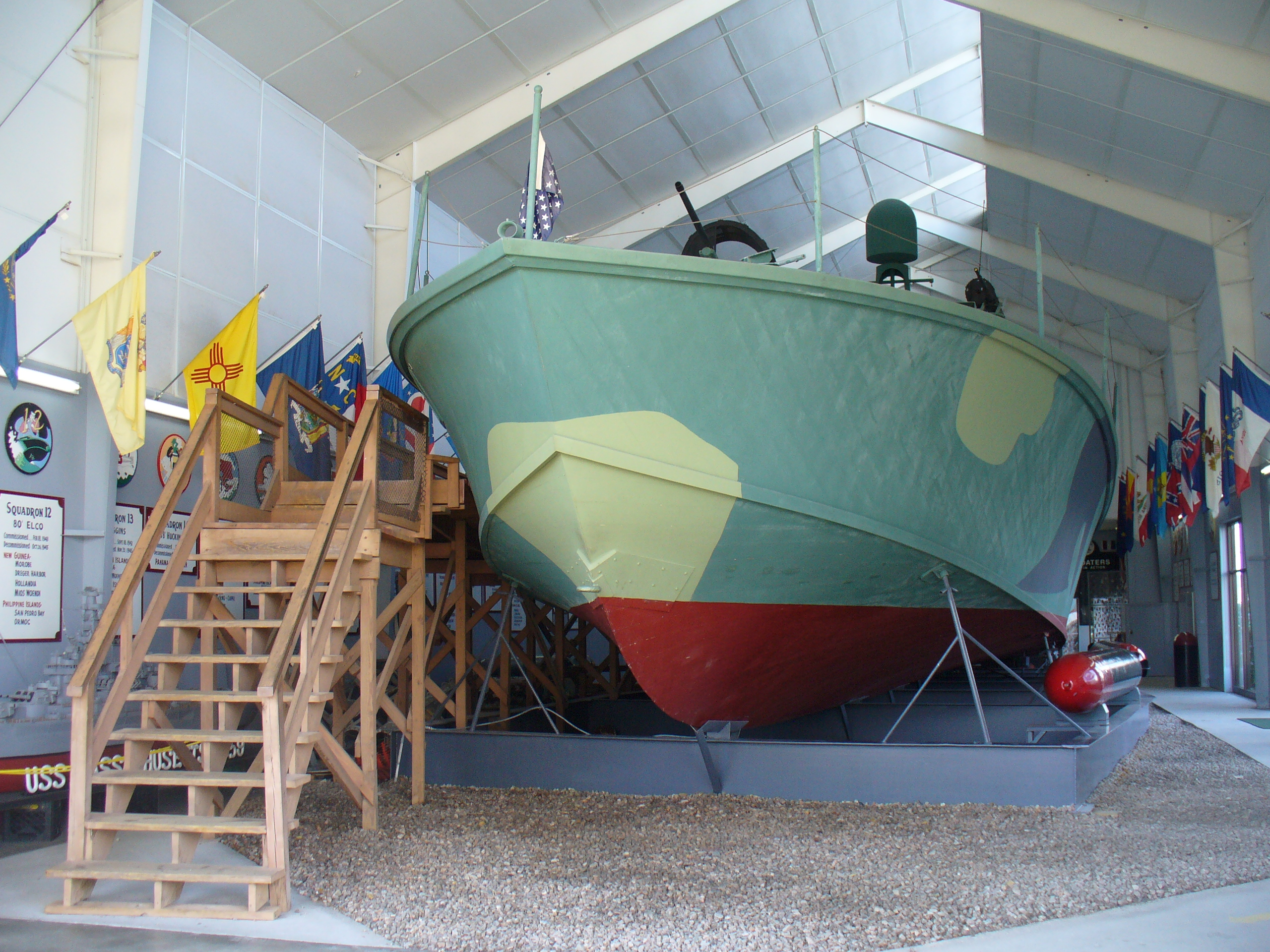 A PT Boat at Battleship Cove, Fall River, MA